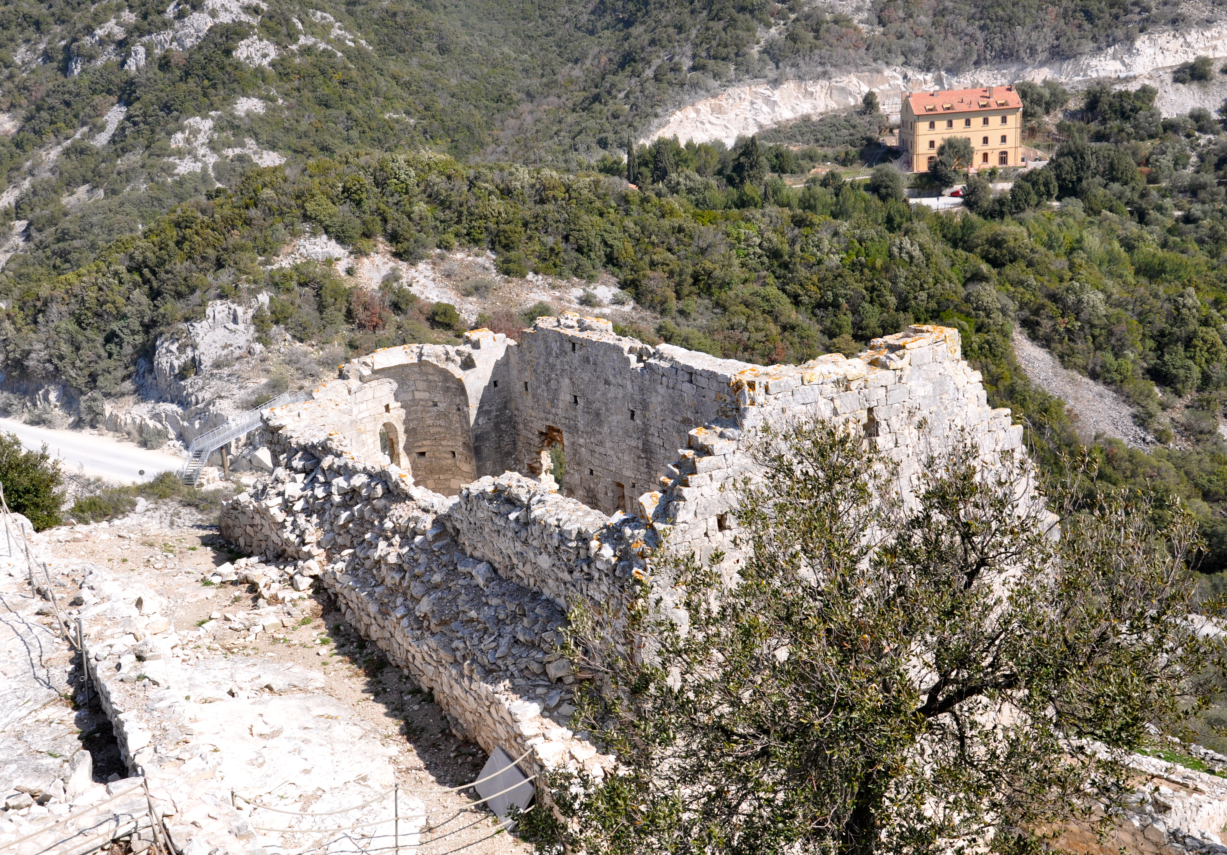 The church of Rocca San Silvestro